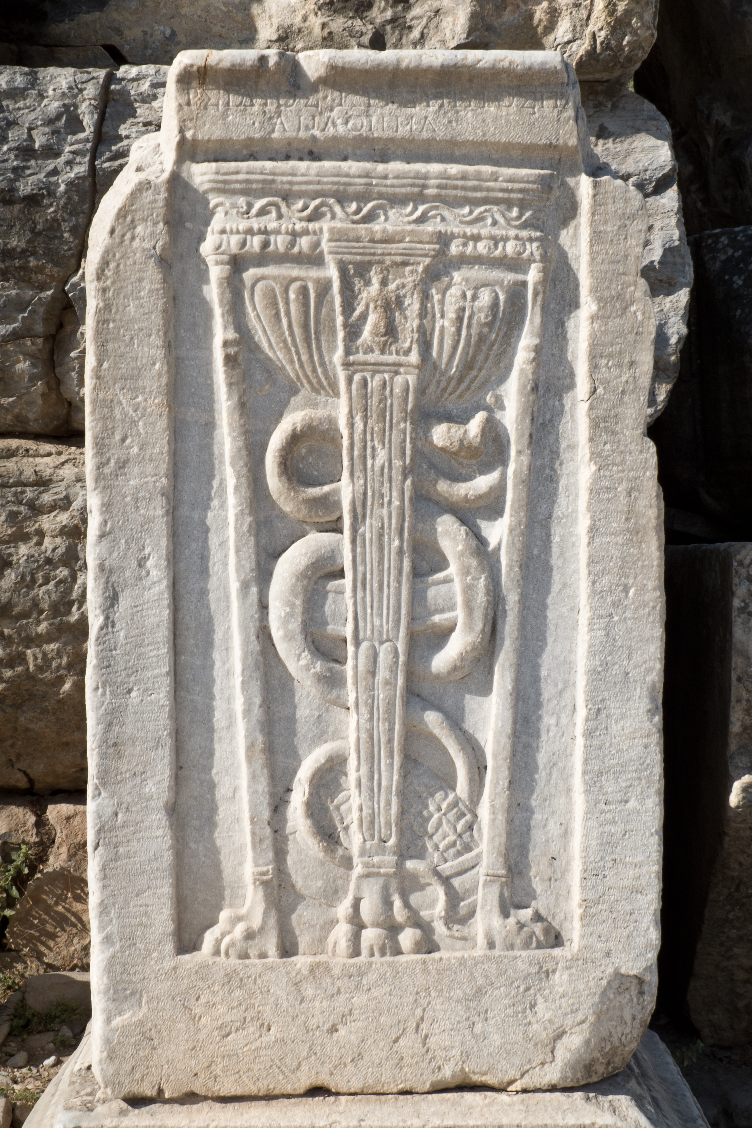 Rod of Asclepius in a relief in Ephesus, in modern-day Turkey.